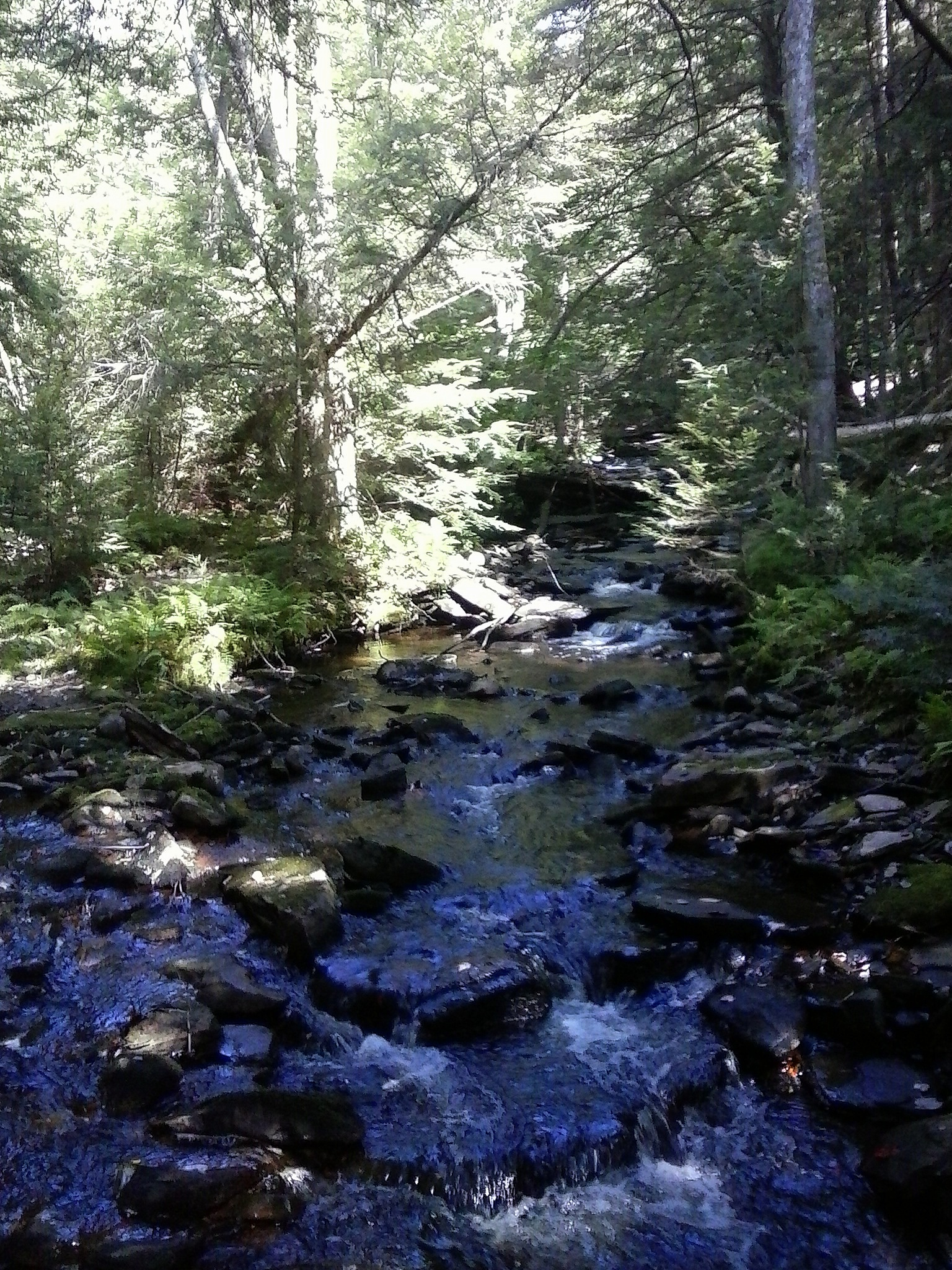 Cherry Run from the Little Cherry Run Trail in Ricketts Glen State Park.